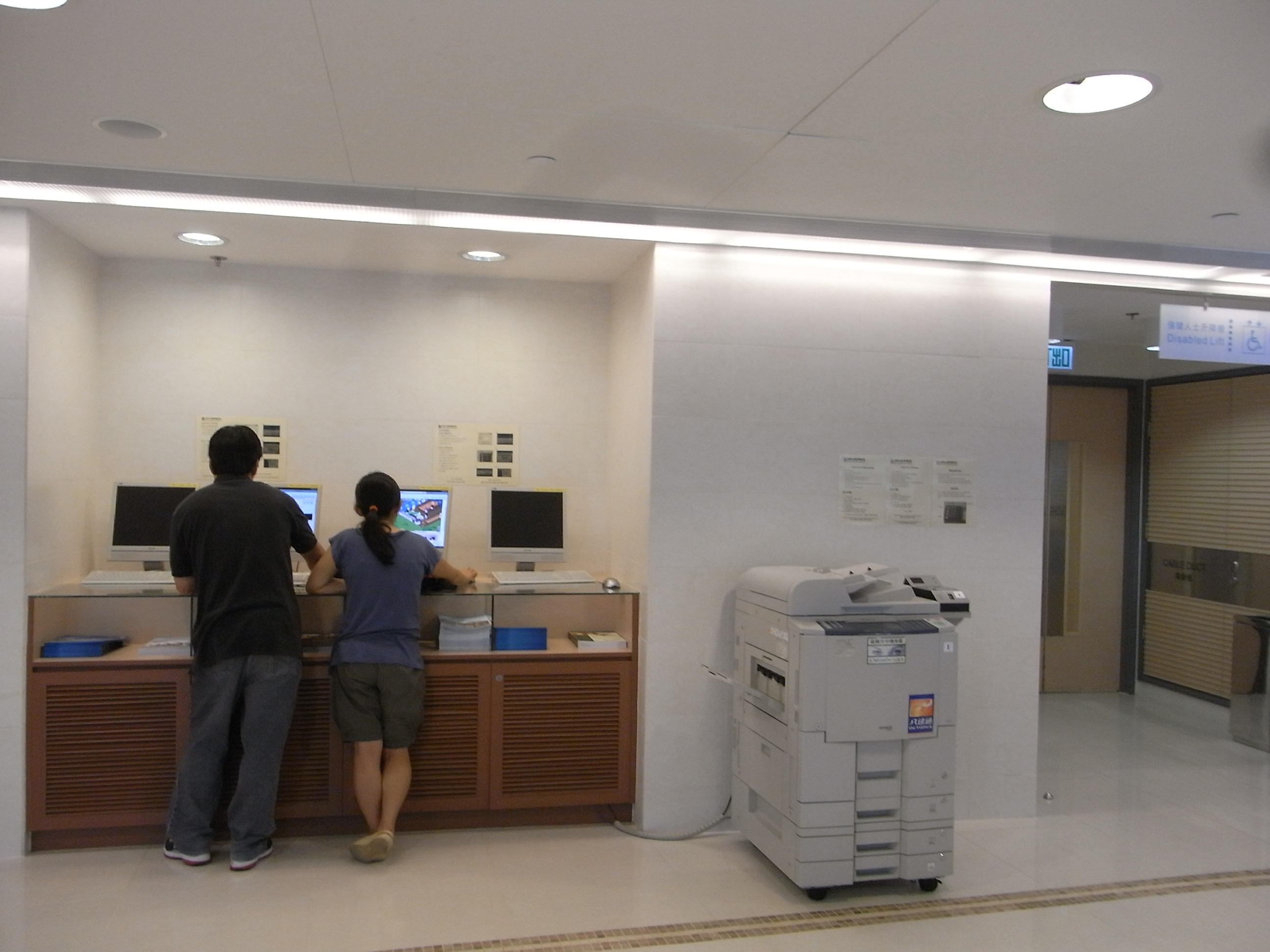 銅鑼灣香港大學專業進修學院保良局社區書院